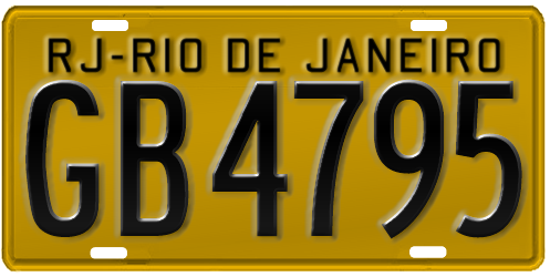 Old brazilian vehicle identification plate, until 1990.